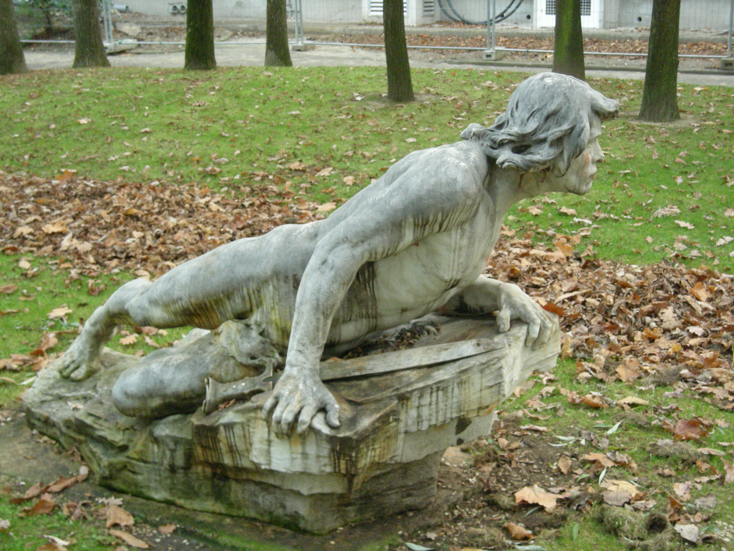 Le Guet by Victor Tournier, garden of the Hôpital Sainte-Anne, Paris, France.